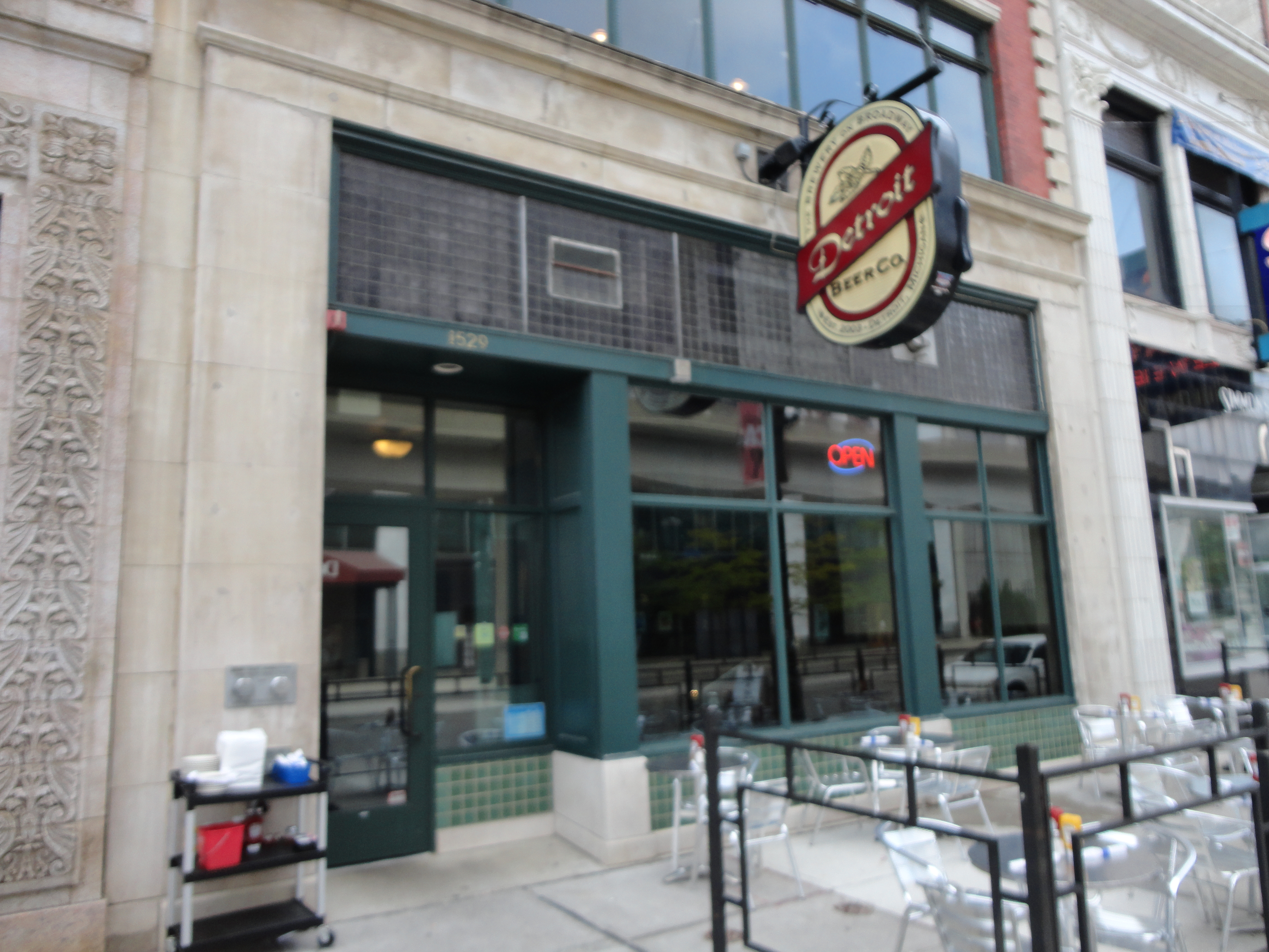 Front of Detroit Beer Company, Detroit, Michigan